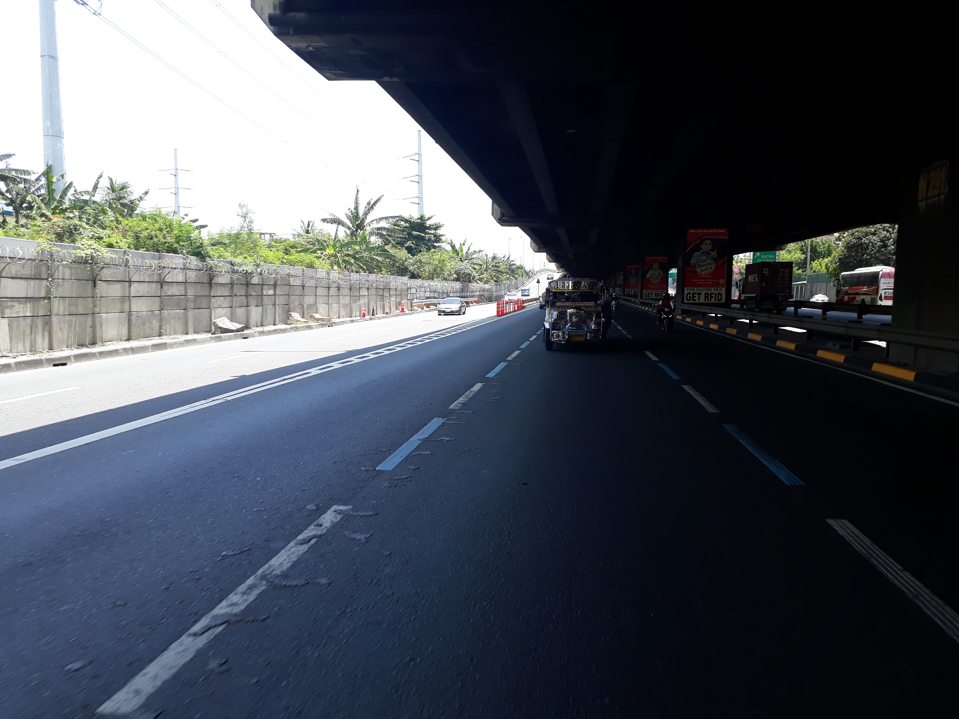 South Superhighway (under MM Skyway) in Makati City